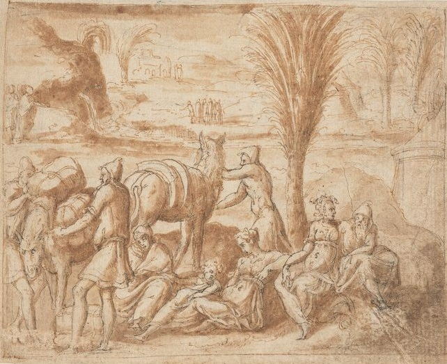 The Hebrews camping in Elim. Original drawing by Bernard Salomon, circa 1550, illustrations for Claude Paradin, Quadrins historiques de la Bible. TypDr 515.S766.50q (15), Houghton Library, Harvard University